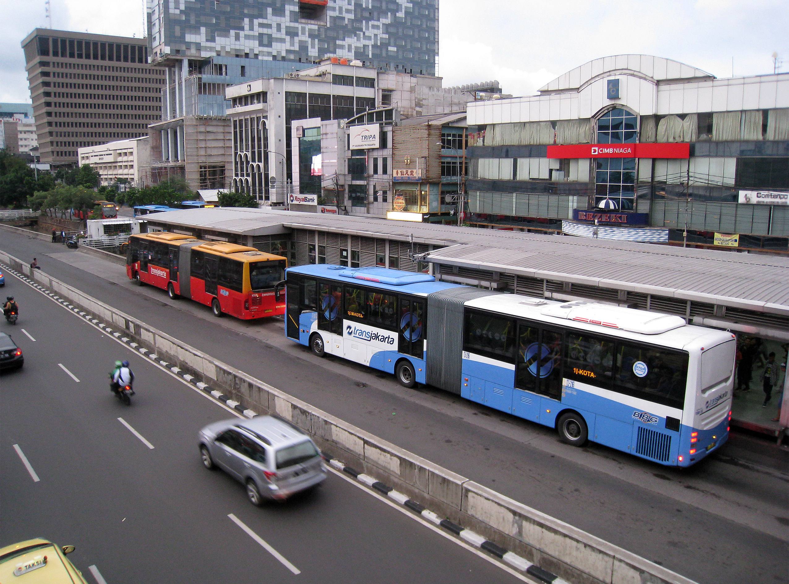 Transjakarta articulated buses at Harmoni Central Busway, Central Jakarta, Indonesia.